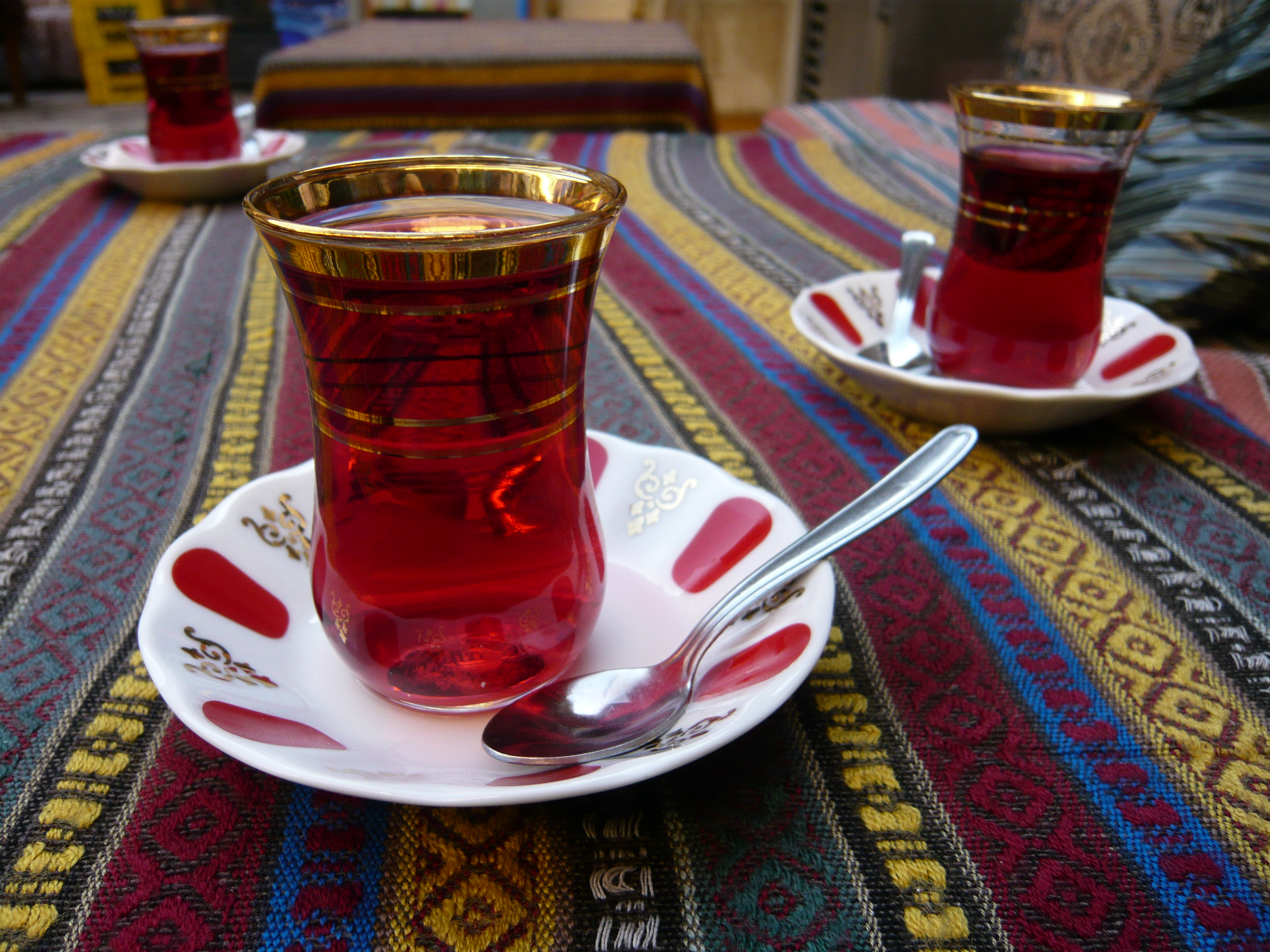 Rose Hip Tea in a Turkish glass